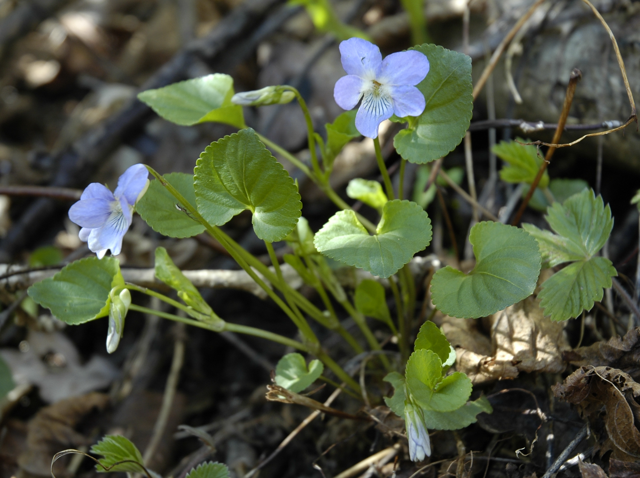 A picture of Viola riviniana, from the edge of a field in Røyken, Norway